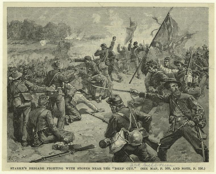 Starke Louisiana Brigade fighting with stones at the embankment near the Deep Cut. Print; Issued in 1884-1887. New York Public Library